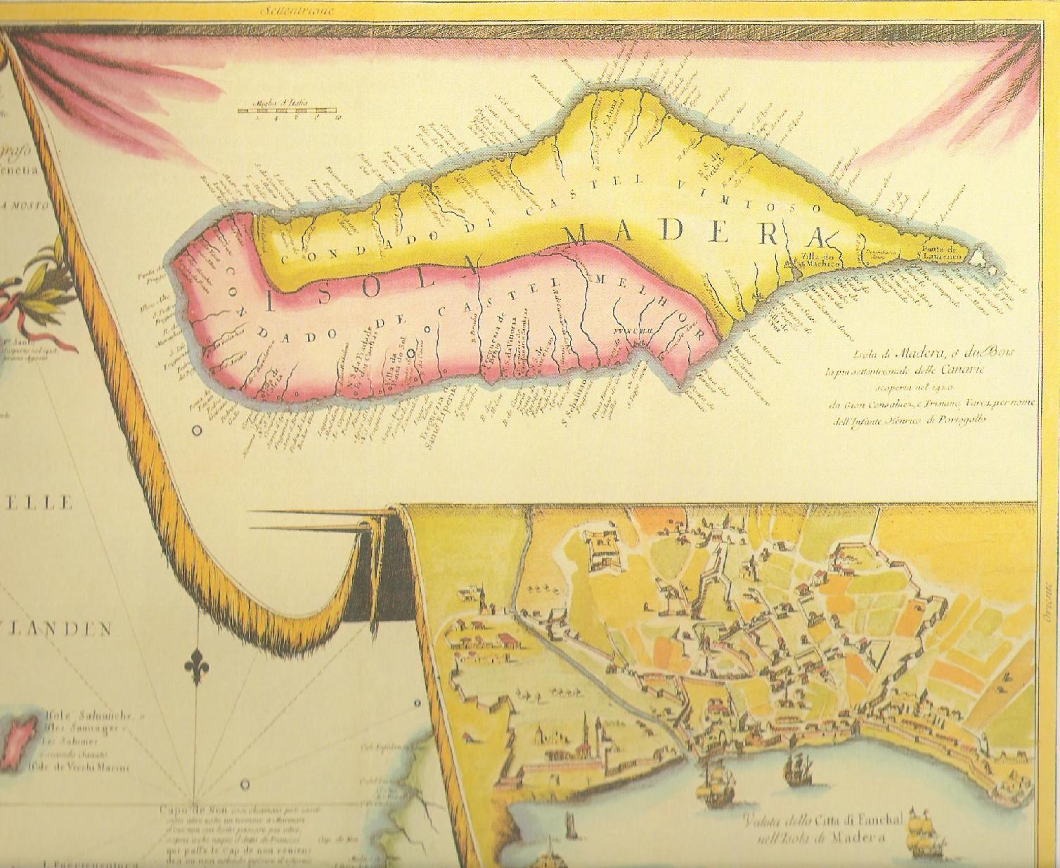 Madeira Island Ancient Map